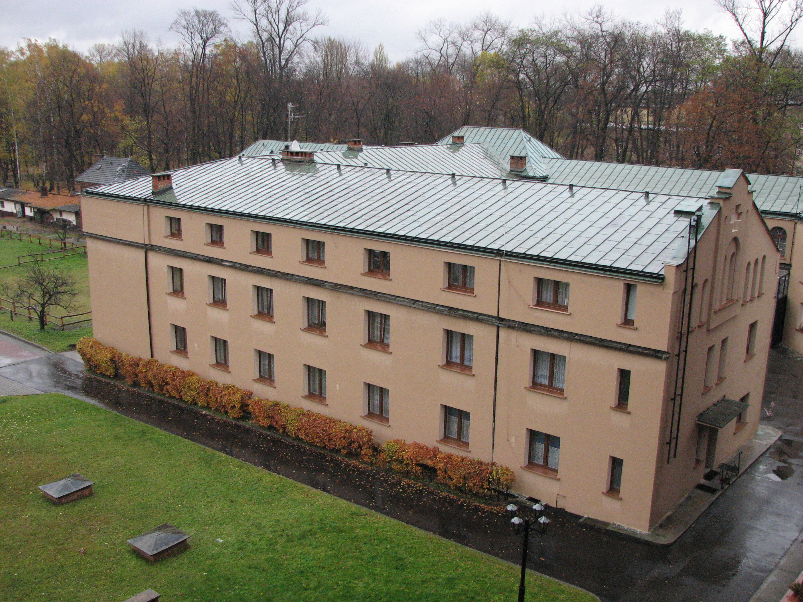 St. Bonaventure’s Franciscan Theological Seminary in Katowice